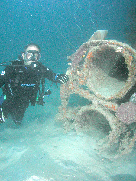 Diver next to the torpedo tubes of a Japanese midget submarine off New Hanover island, Papua New Guinea. The tie-down tackle used to secure the midget submarine to the deck of the mother submarine is still visible. Image taken by Clark Anderson/Aquaimages.